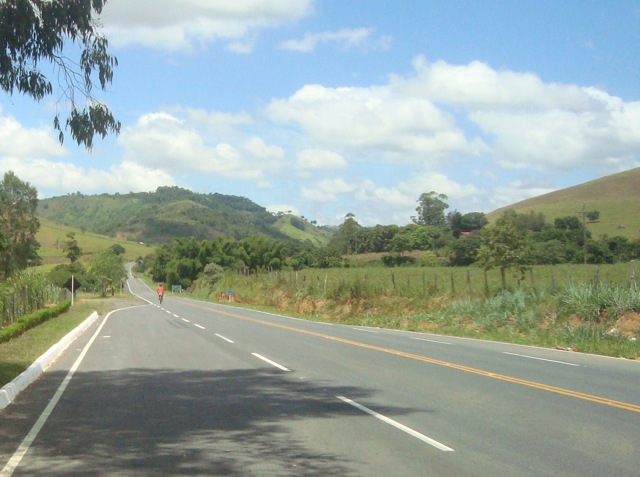 Road MGC-265 near road AMG-0505 in Rio Pomba, Minas Gerais, Brazil